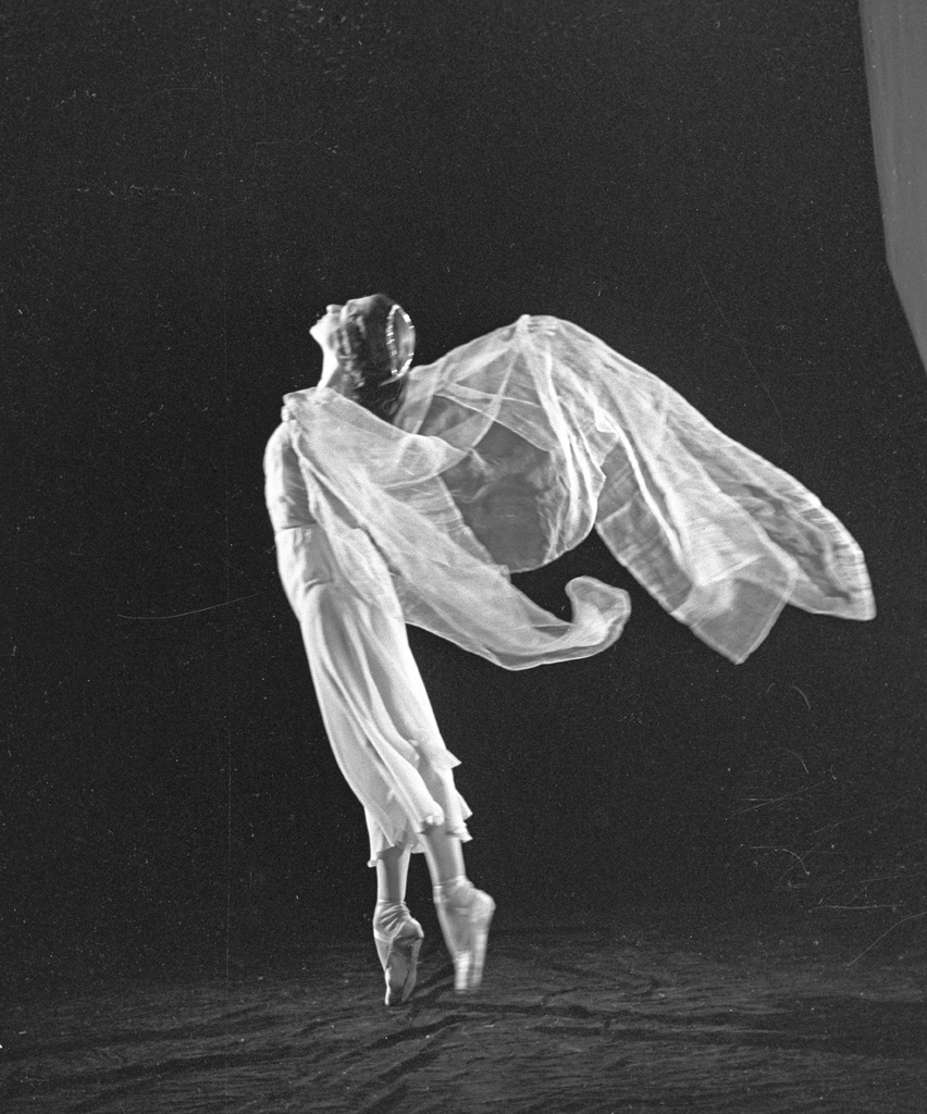 “Yekaterina Maksimova as Maria”. Yekaterina Maksimova as Maria in a scene from ballet The Fountain of Bakhchisaray staged at the State Academic Bolshoi Theater of the USSR.